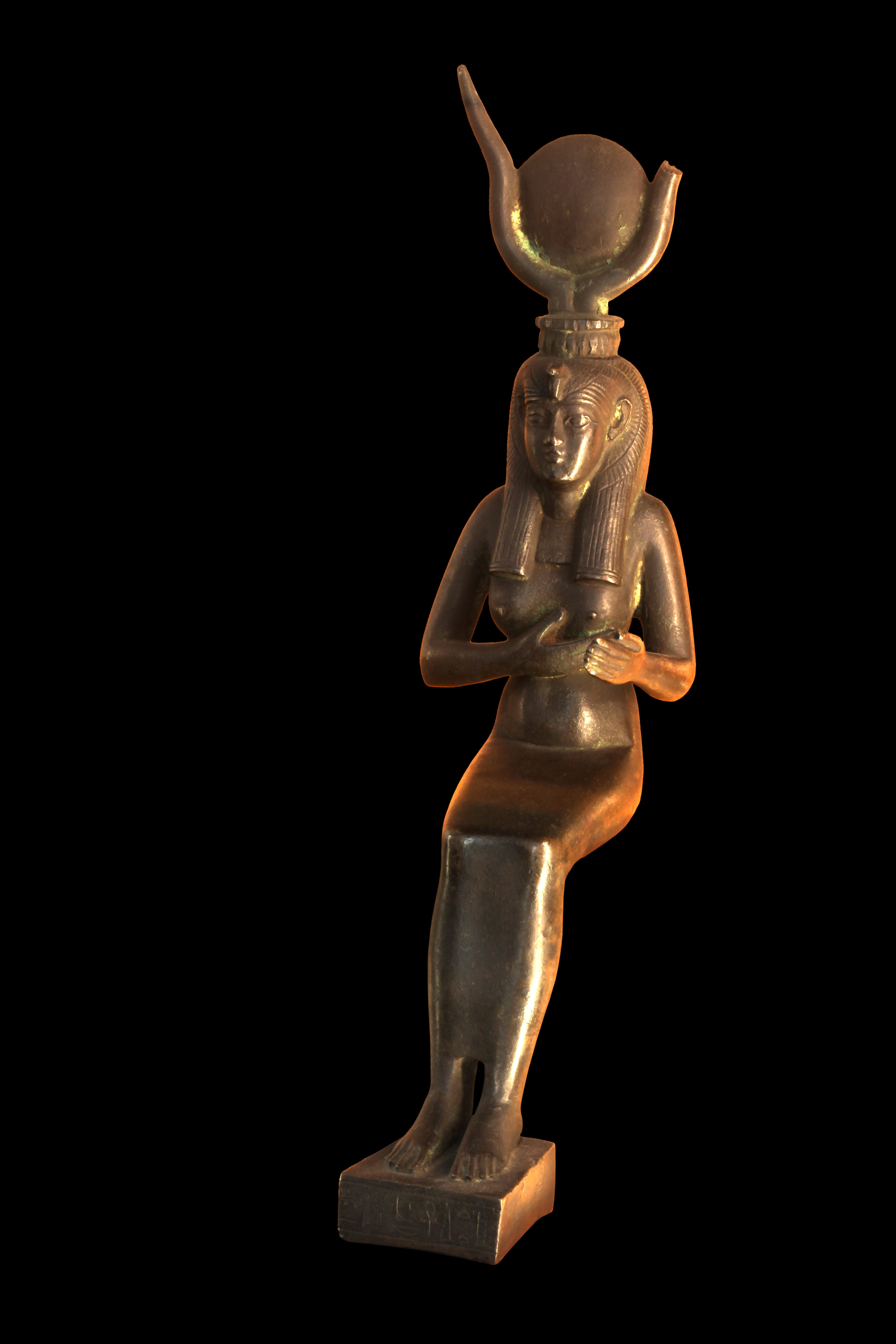 Isis-Hathor giving milk to Osiris. The Child, now lost, was fixed to the hand of the statuette by a hinge.